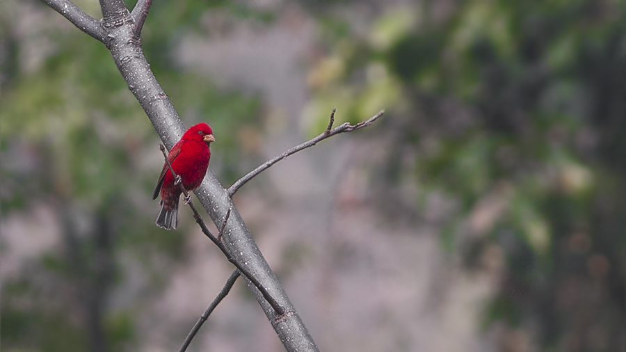 The species Scarlet Finch had been photographed during the birding tour of GoingWild at Khangchendzonga National Park in West Sikkim, Sikkim, India on 18.02.2016.